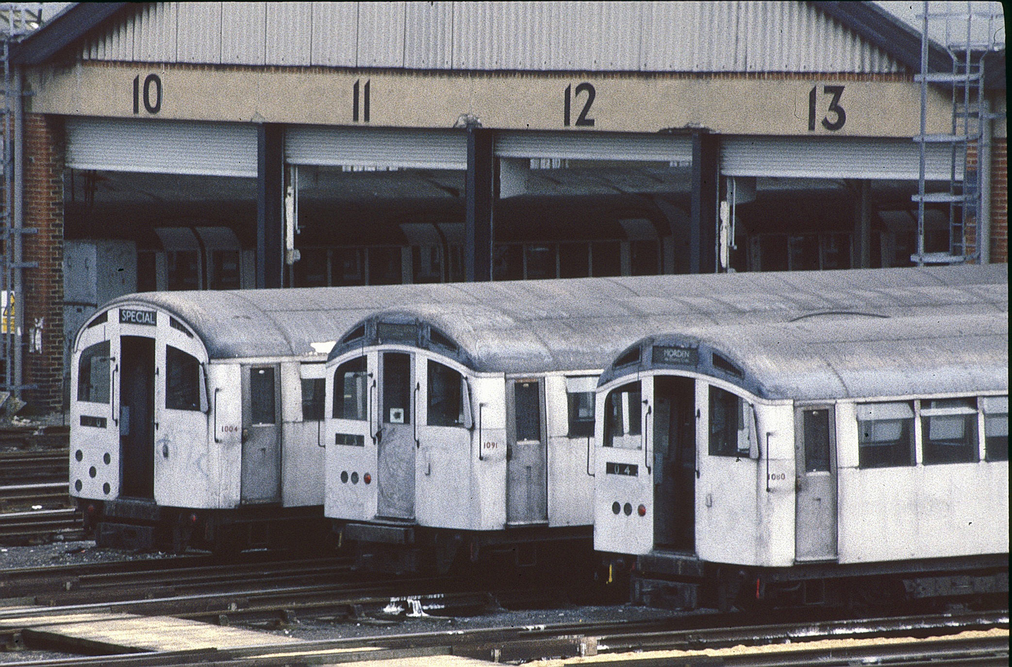 April 1988 1956 and 1959 Stock